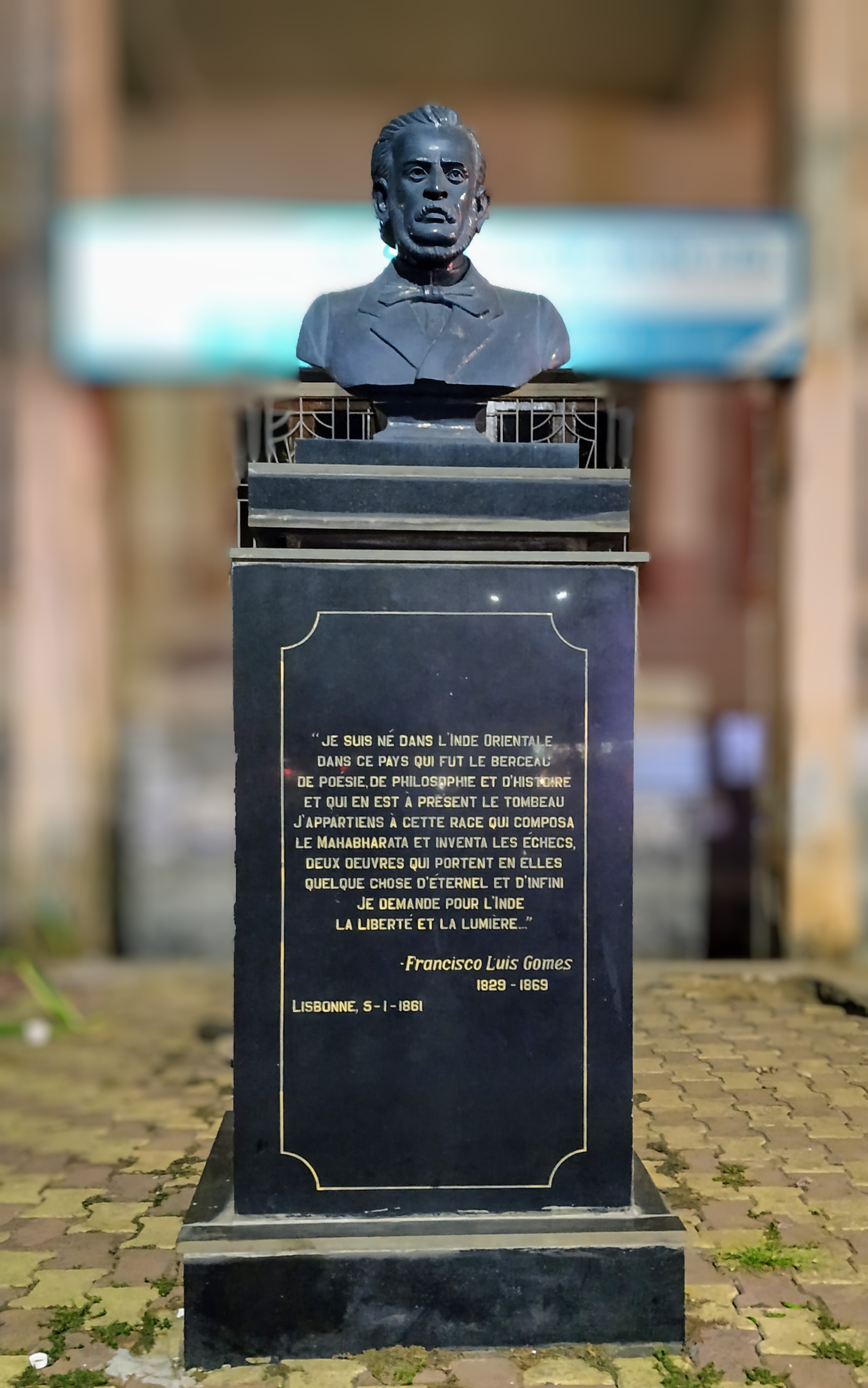 Bust of Francisco Louis Gomes (F.L. Gomes) in Margao, Goa. Near